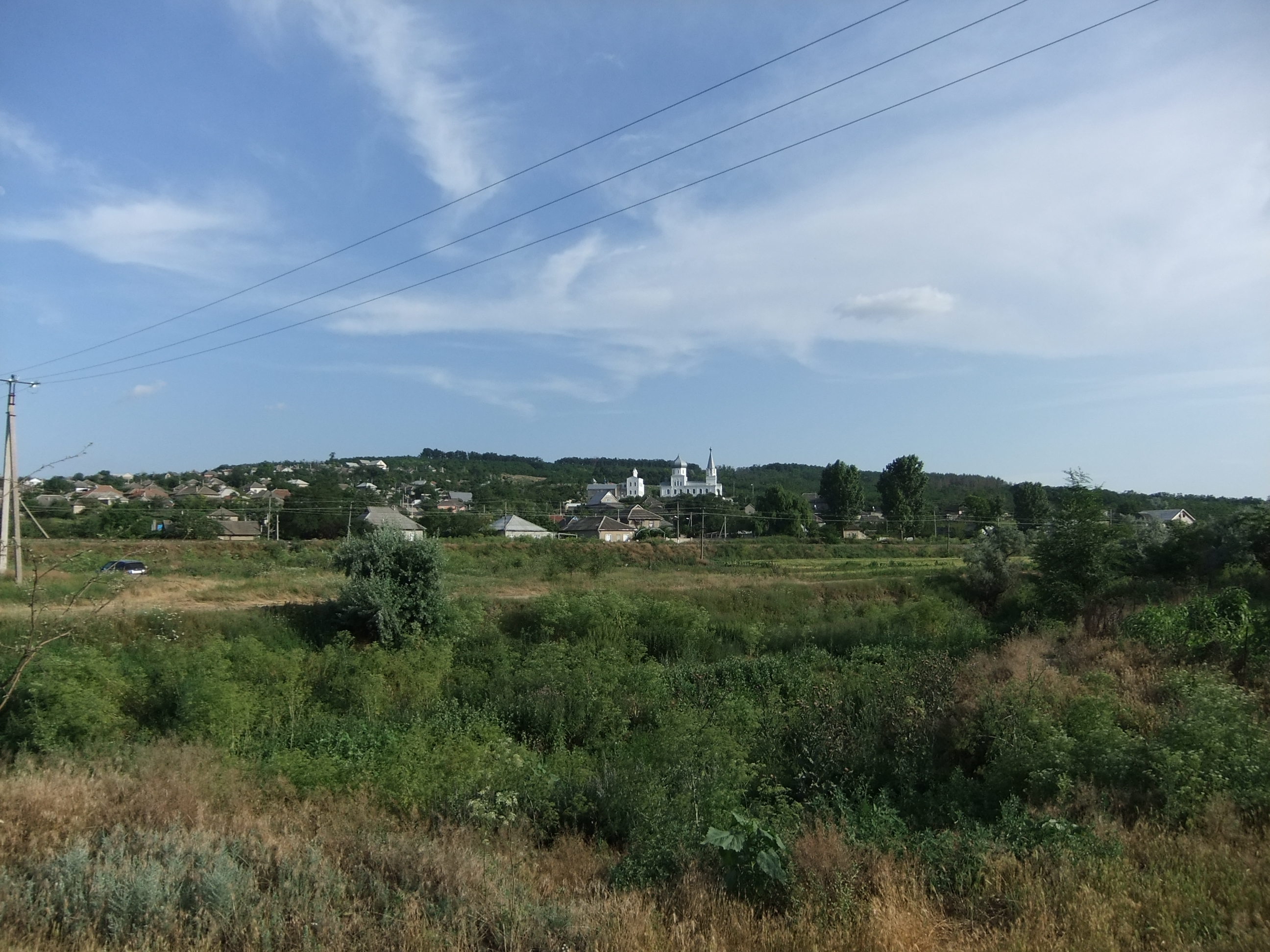 Ceadîr-Lunga, view of the nunnery